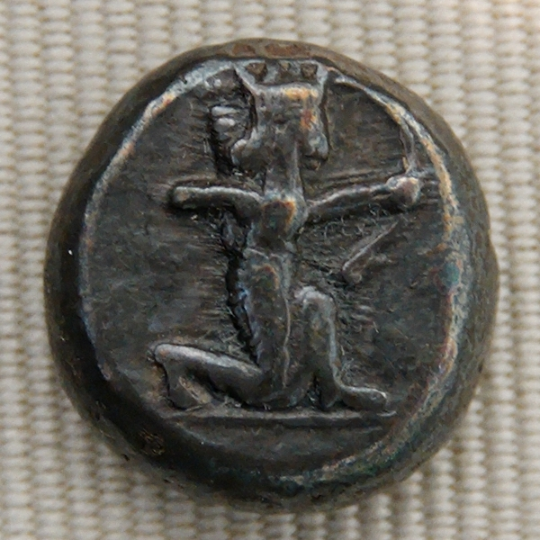 Silver shekel issued by King Darius I of Persia ca. 500–490 BC, obverse: the king of Persia firing his bow.